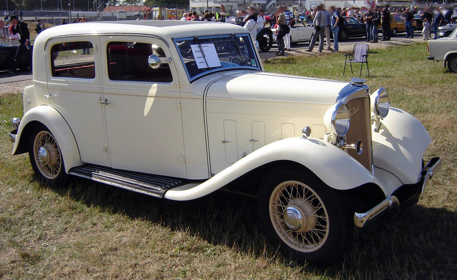 1934 Talbot L67 Rubis (six-cylinder berline)